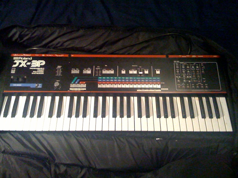 Roland JX-3P I'm getting rid of this thing